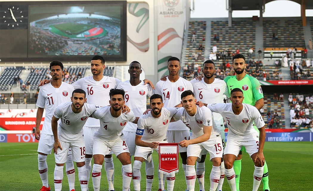 South Korea-Qatar, 2019 AFC Asian Cup Quarter-final